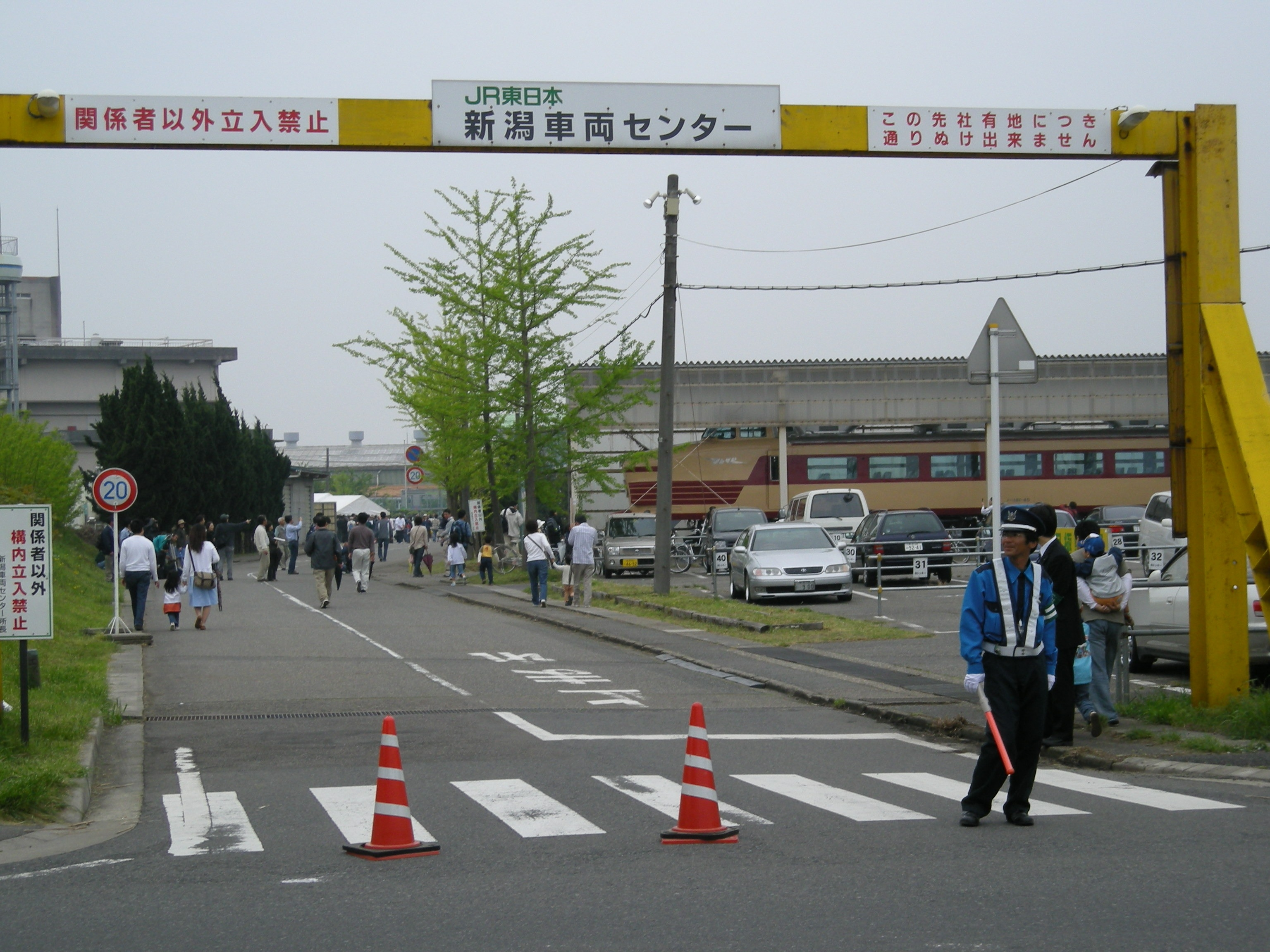 Entrance of Niigata Rolling Stock Center